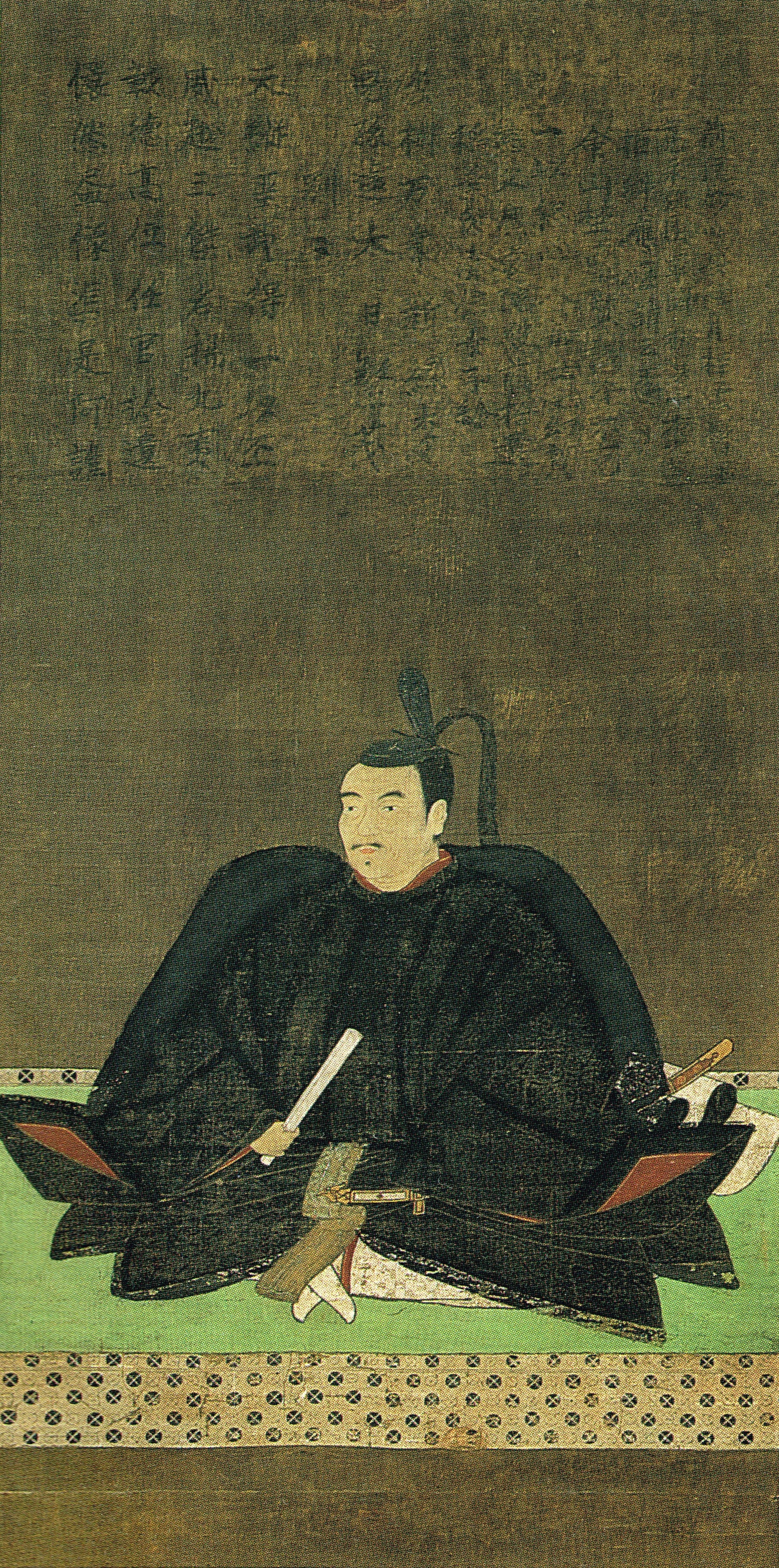 Portrait of Inaba Norimichi, owned by Gekkei-ji Temple in Usuki, Oita, Japan